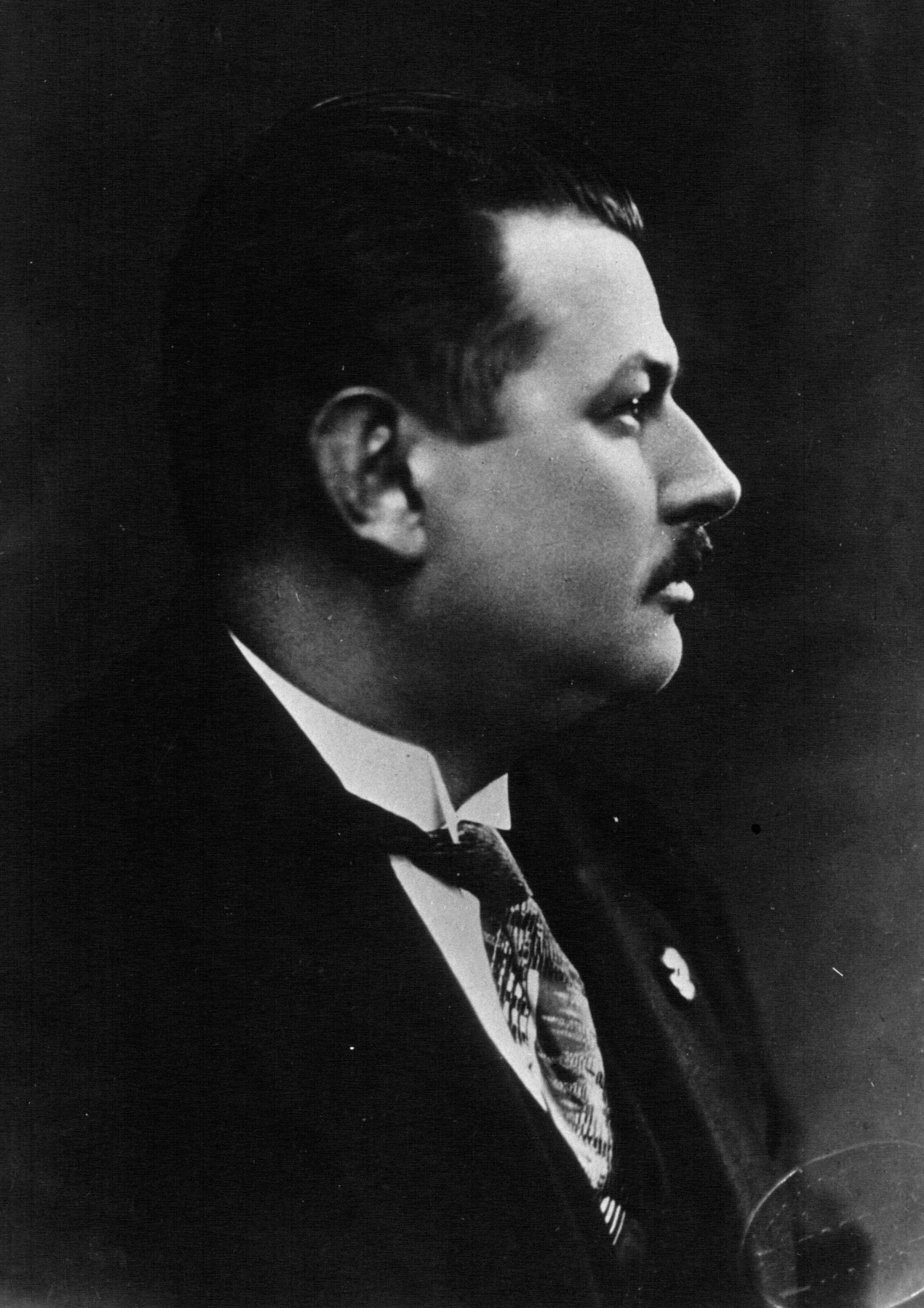 Aleksandras Žilinskas, Lithuanian Minister of Justice, in 1932